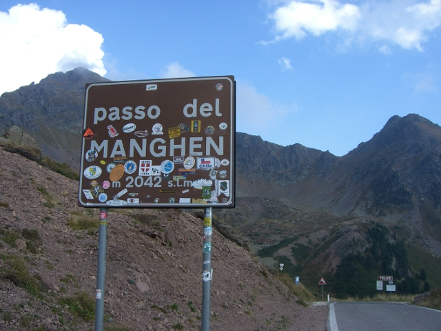 Manghen Pass, street sign on the pass summit